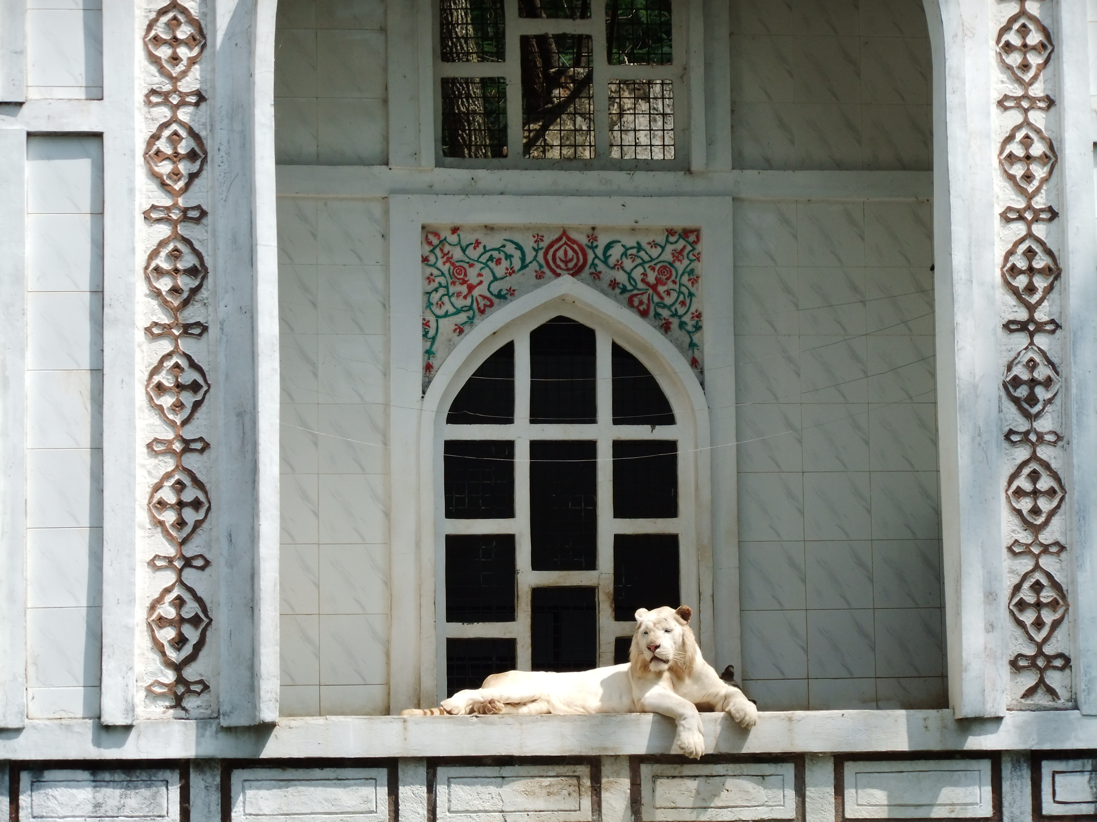 White tiger, Safari Park, Cisarua, West Java, Indonesia